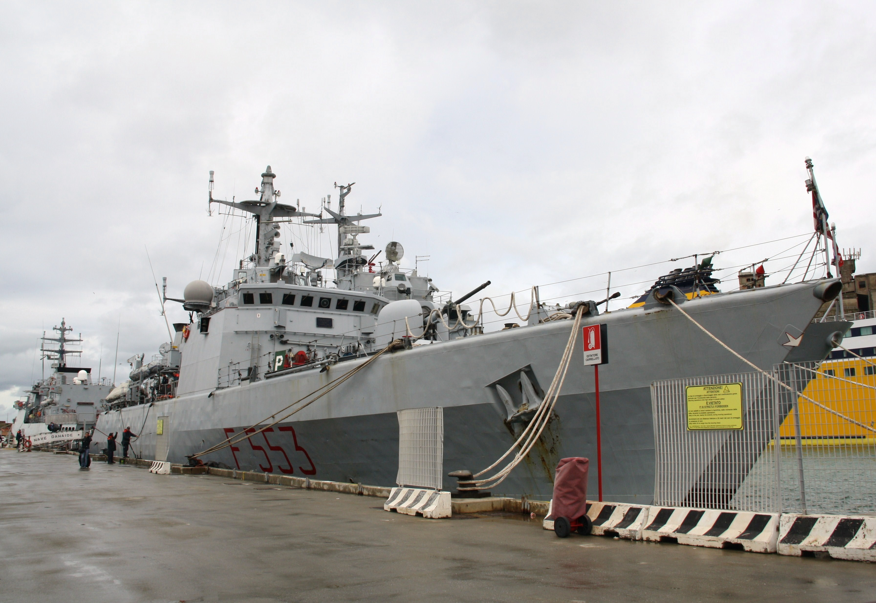 Italy, Marina Militare, Danaide (F553) Minerva-class corvette built by Cantiere navale del Muggiano has been launched on October 18, 1986. The unit has played roles in monitoring fishing, naval command school and training. Here is berthed in the Port of Livorno to the dock “Andana degli Anelli” of “Porto Mediceo”.